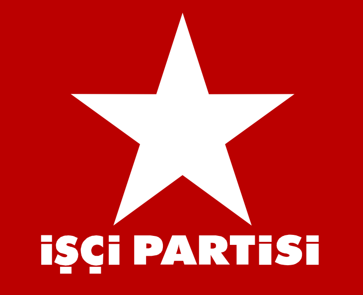 The flag of Workers' Party (Turkey) Kurdî: Alaya Partiya Karkerên